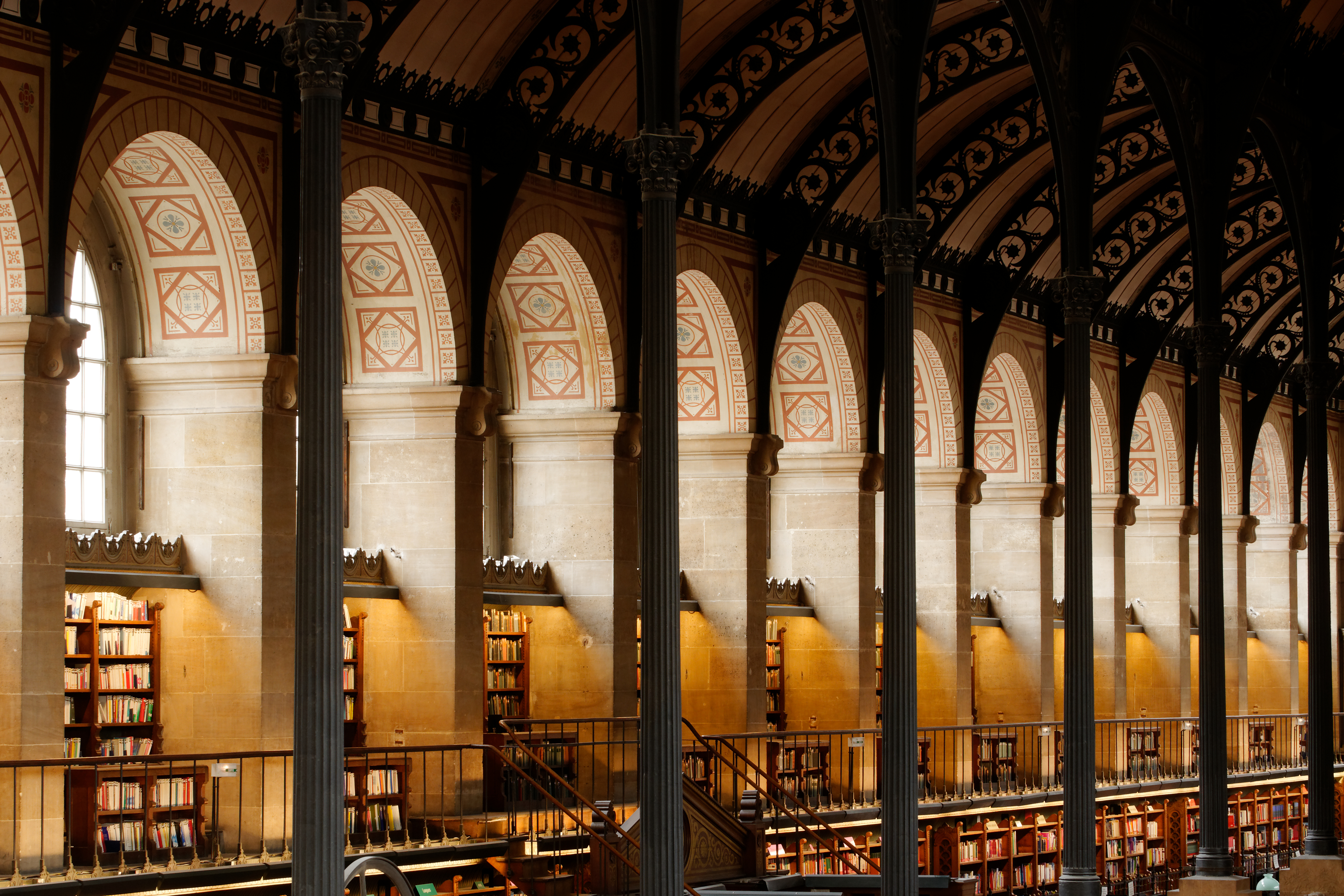 Reading room of the Bibliothèque Sainte-Geneviève, Paris.